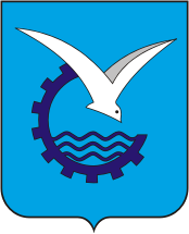 Severodvinsk (Arkhangelsk oblast), coat of arms (1967)